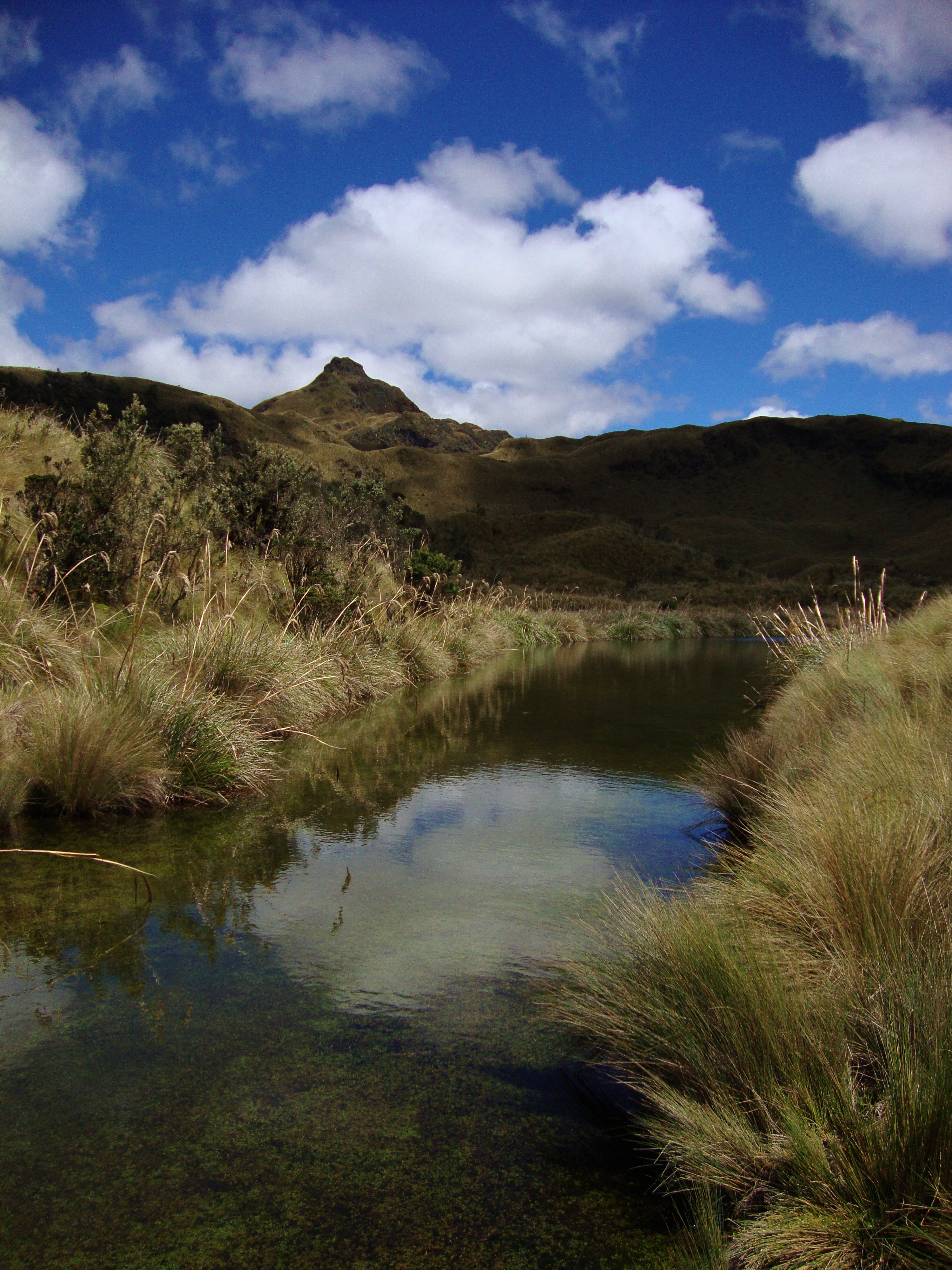 Páramo on Southern Side of Cayambe Coca in Napo, Ecuador. This is Laguna Baños. It is the first lake along the "El agua y la vida" trail. This trail head can be reached by the driving or walking up the road from the thermal springs at Papallacta.